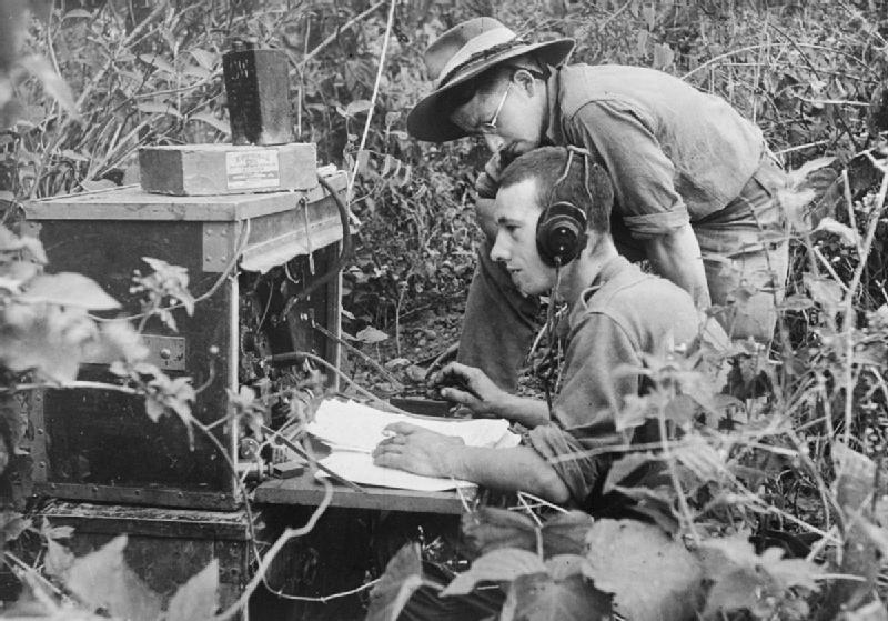 The War in the Far East- the Burma Campaign 1941-1945 Logistics: A Royal Air Force wireless unit attached to a British Army column operating in North Burma arranges for food and supplies to be dropped.